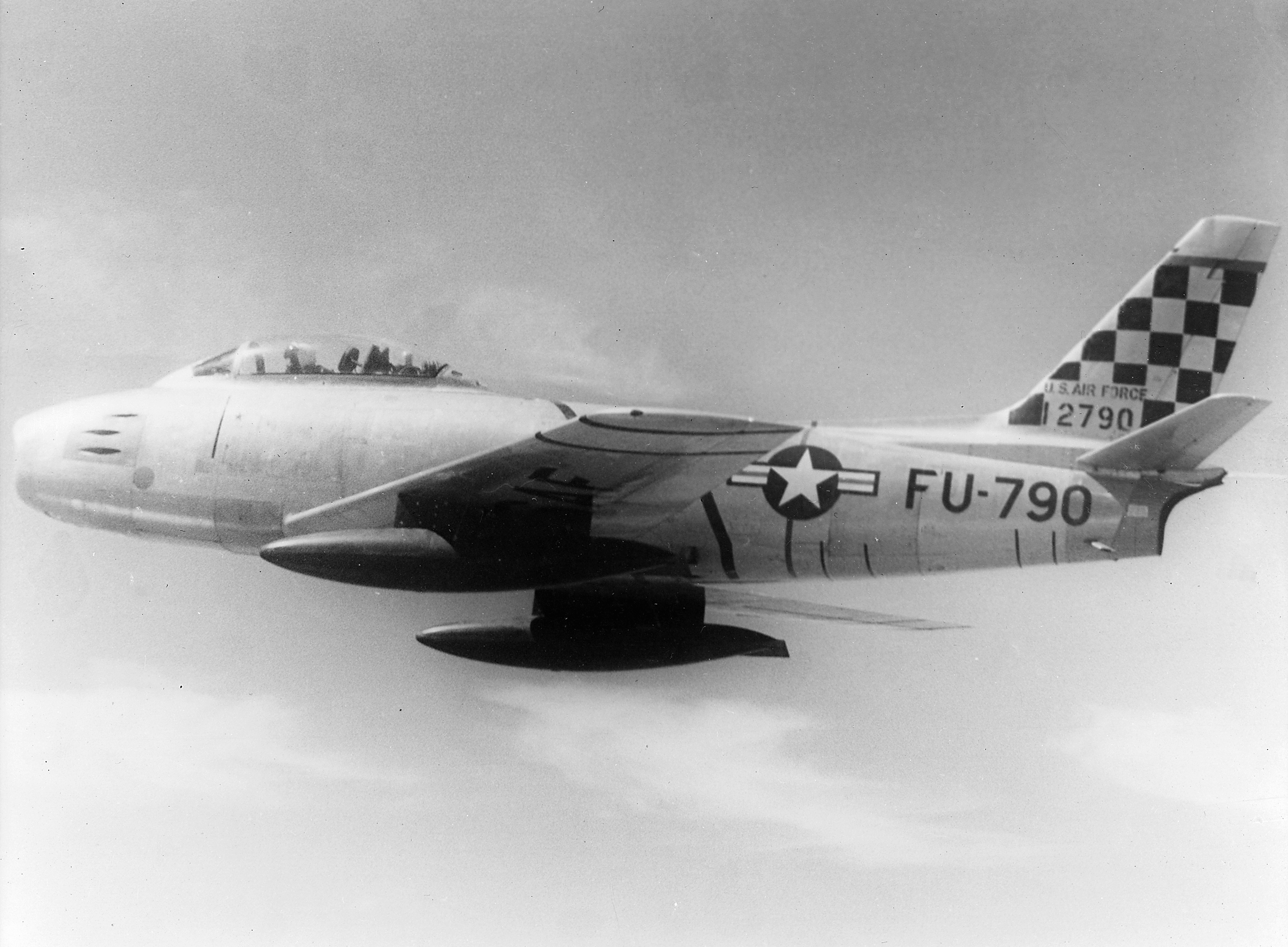 A U.S. Air Force North American F-86E-10-NA Sabre (s/n 51-2790) from the 51st Fighter Wing over Korea, 1952. Original caption: "FIFTH AIR FORCE, KOREA - Its swept wings and sleek fuselage distinguish the North American F-86 "Sabre Jet", America's fastest jet fighter, ca. 09/1952"